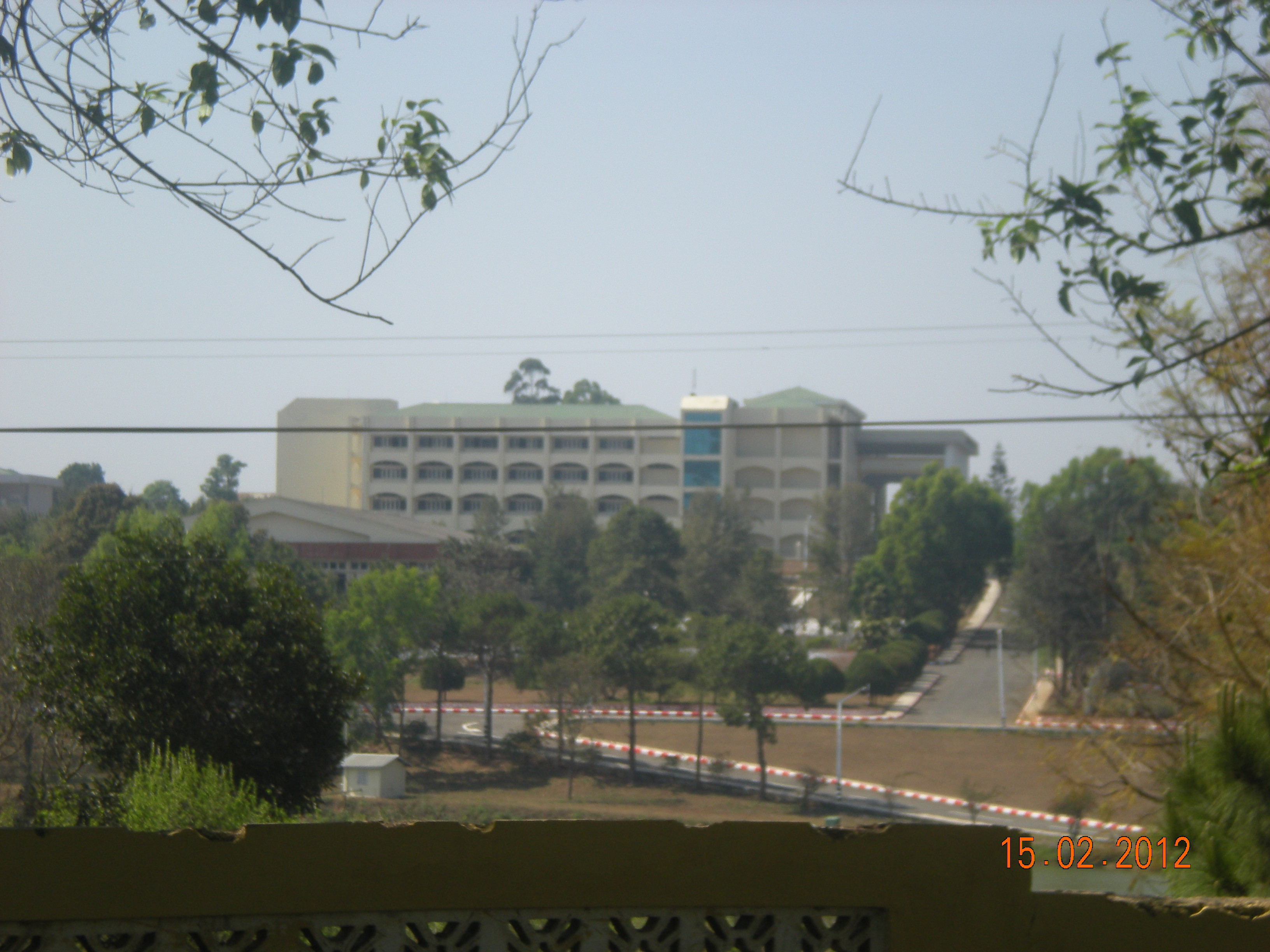 Defense Service Technological Academy